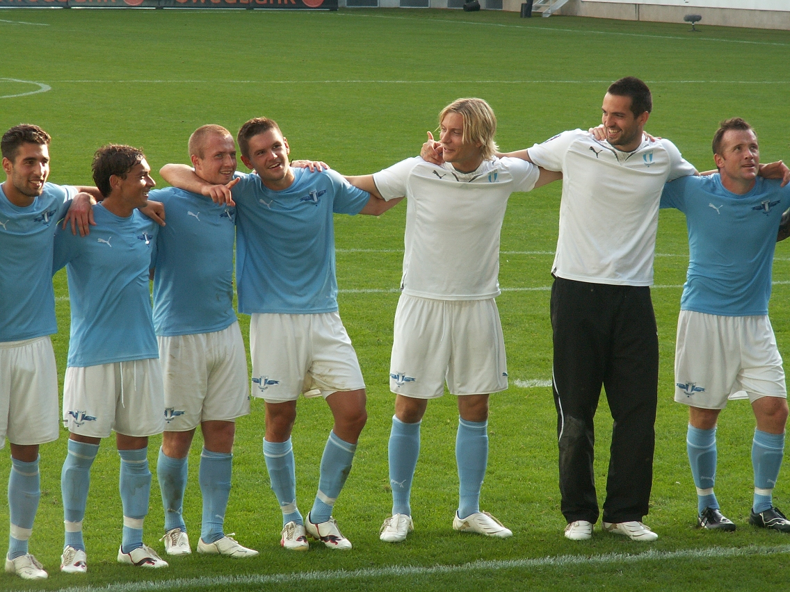 Players in Malmö FF after 2-0 vs Gefle IF 2010-08-15 in Allsvenskan. From left to right: Jimmy Durmaz, Ricardo Ferreira da Silva, Daniel Larsson, Ivo Pekalski, Markus Halsti, Dusan Melicharek, Ulrich Vinzents. Downsized to 50% with GIMP but not edited or manipulated.